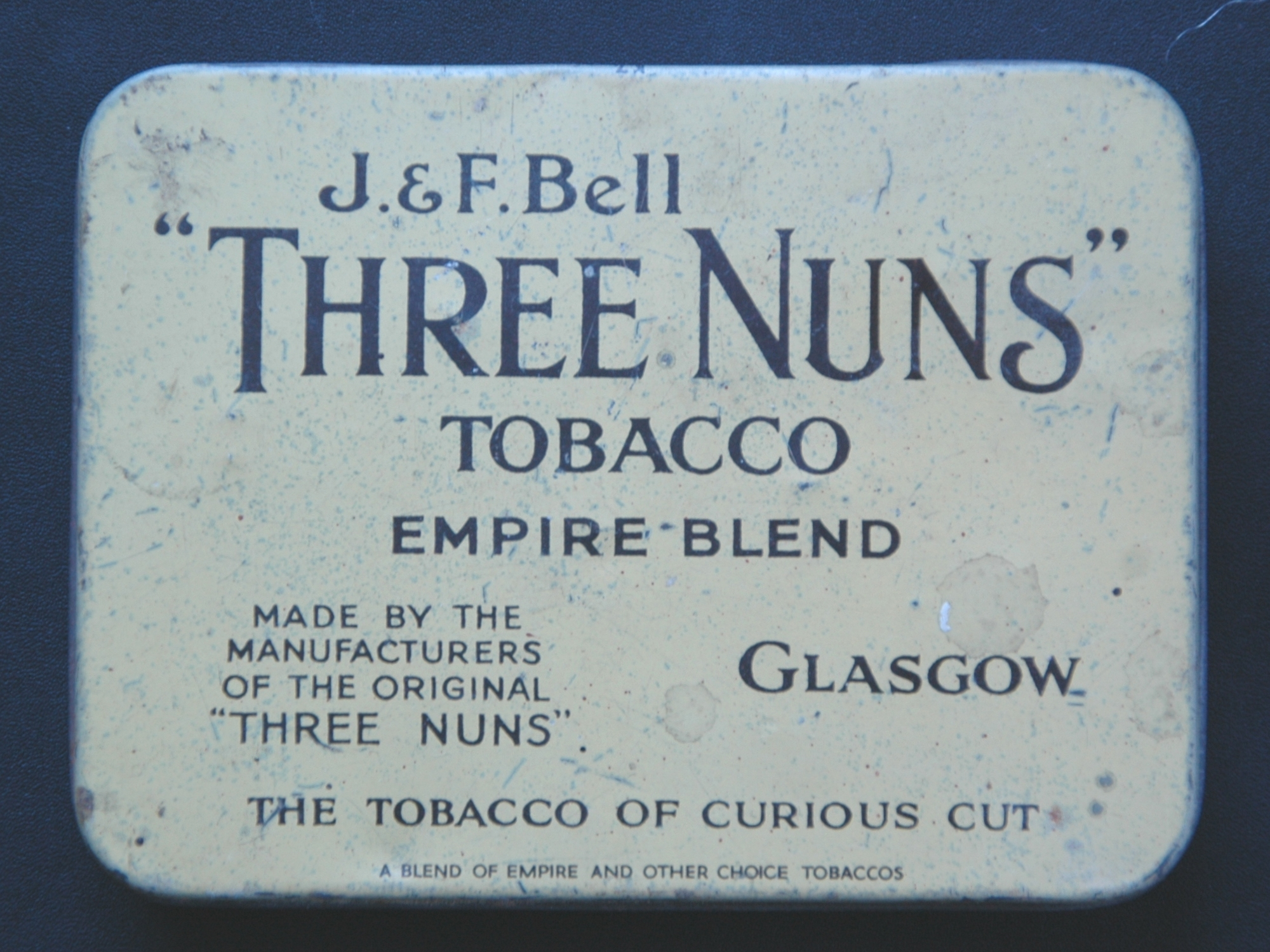 Enamelled metal box for 2 ounces of tobacco: J&F Bell, Glasgow, Scotland